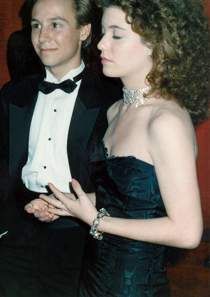 Keith Coogan and date Katie Barberi at the Governor's Ball party after the 1989 Academy Awards, March 29, 1989 - Permission granted to copy, publish, broadcast or post but please credit "photo by Alan Light" if you can